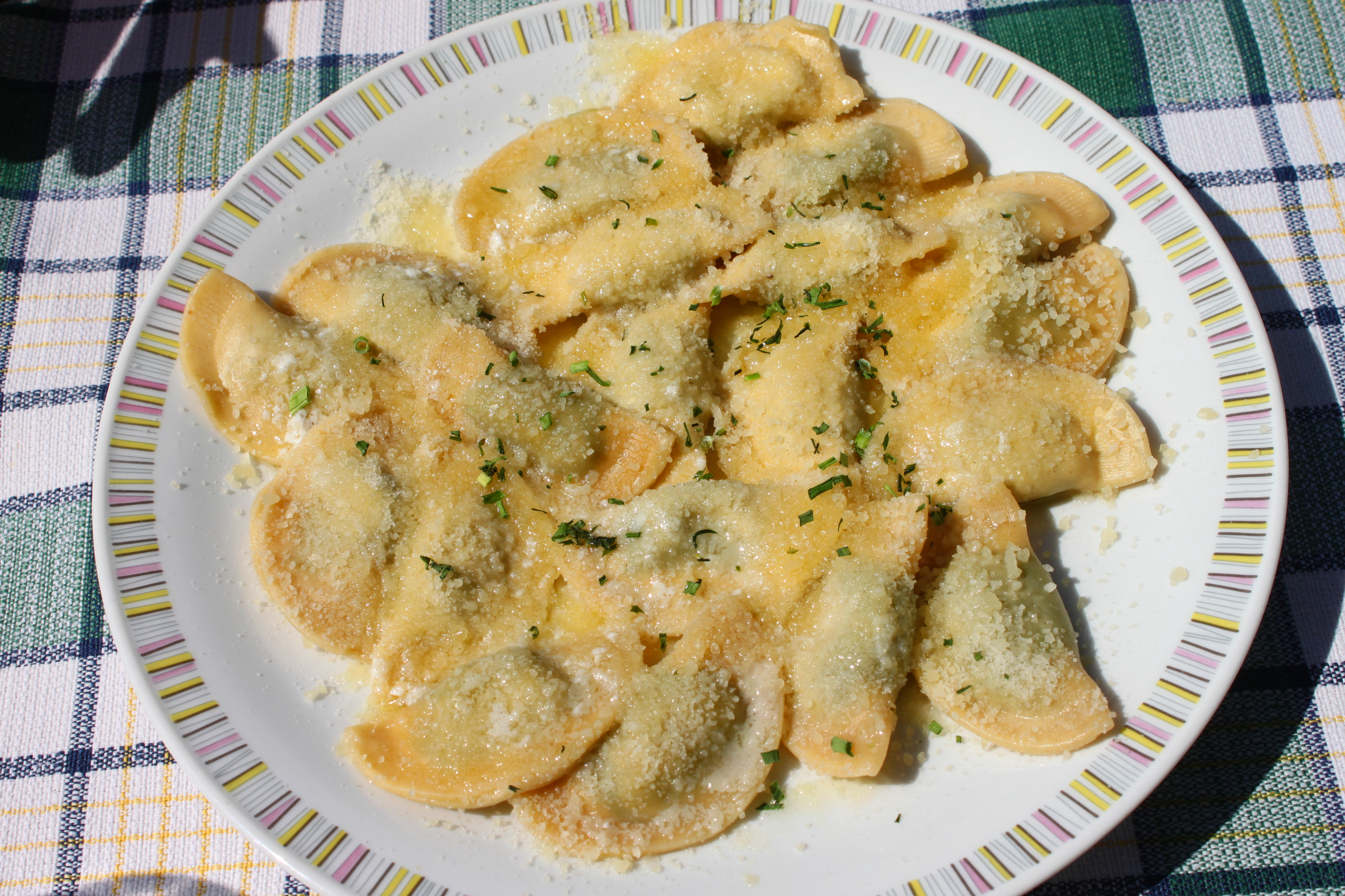 Schlutzkrapfen with a filling of spinach and ricotta cheese topped with melted butter and sprinkled with Parmesan shavings .